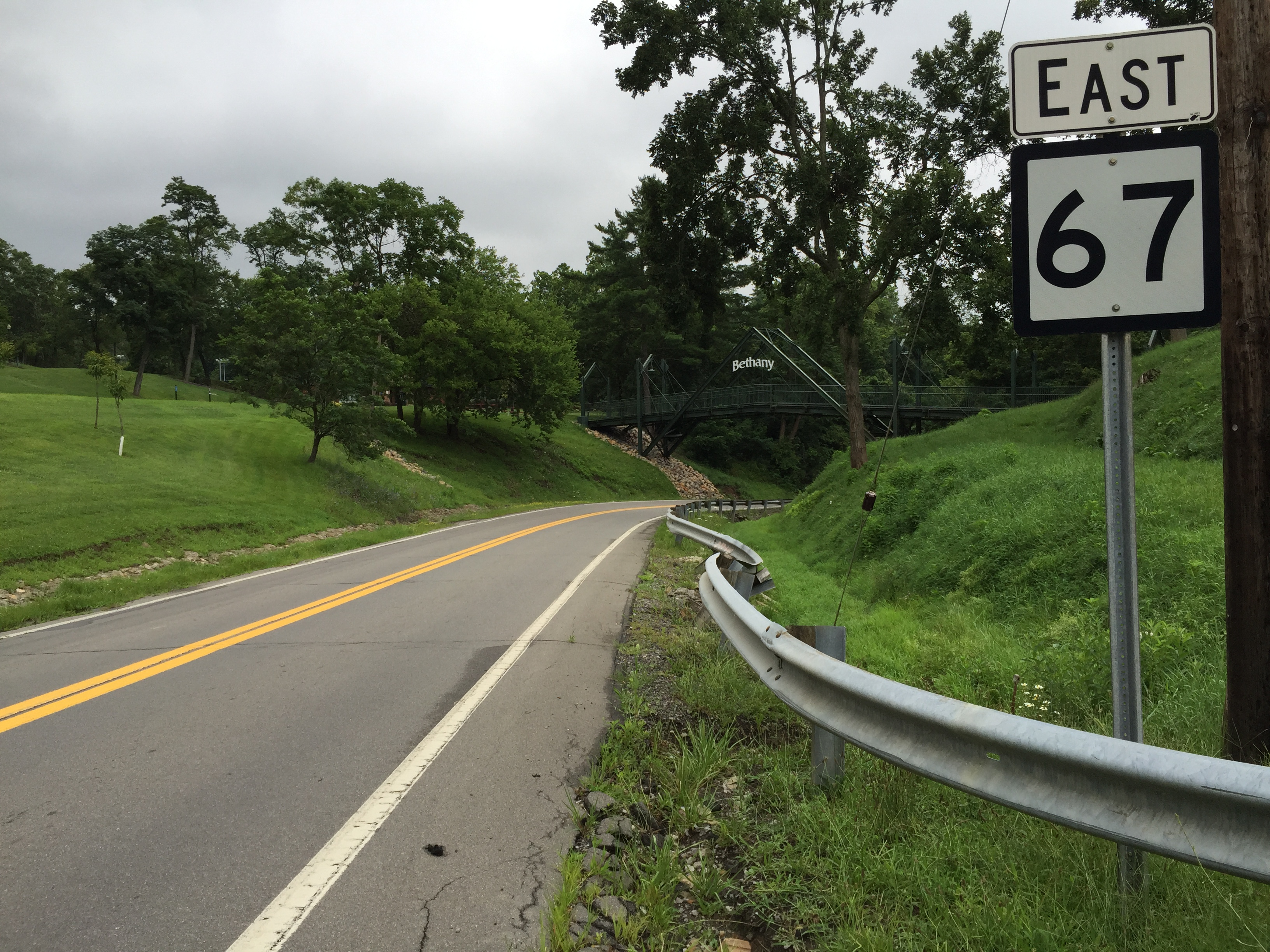 View east along West Virginia State Route 67 (Main Street) at Parkinson Place in Bethany, Brooke County, West Virginia